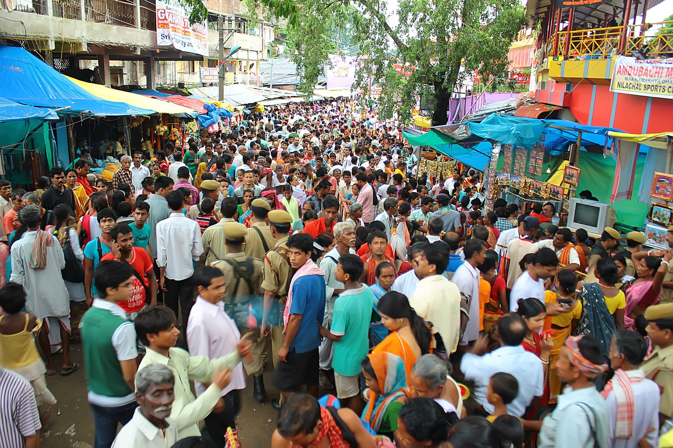 The Ambubachi Mela is the most important mela celebrated in the Kamakhya Temple in Guwahati, Assam. This yearly mela is celebrated during the monsoon season that happens to fall during the assamese month Ahaar, around the middle of June,when the Brahmaputra river is in spate. Source : Wiki